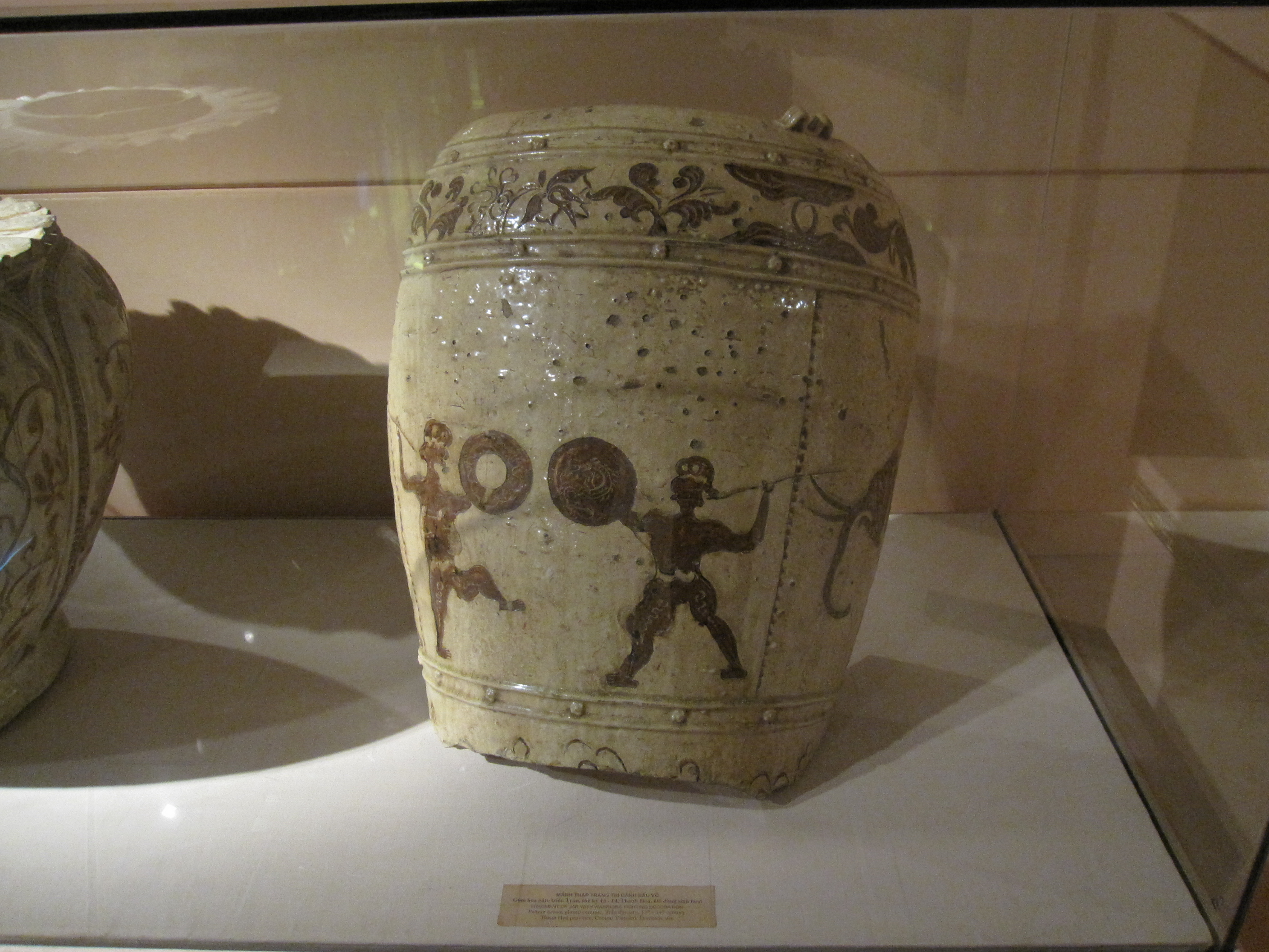 Fragment of jar with warriors fighting. Pattern brown glazed ceramic, Trần dynasty, 13th-14th century. Than Hóa province, central Vietnam. Domestic use. National Museum of Vietnamese History, Hanoi.